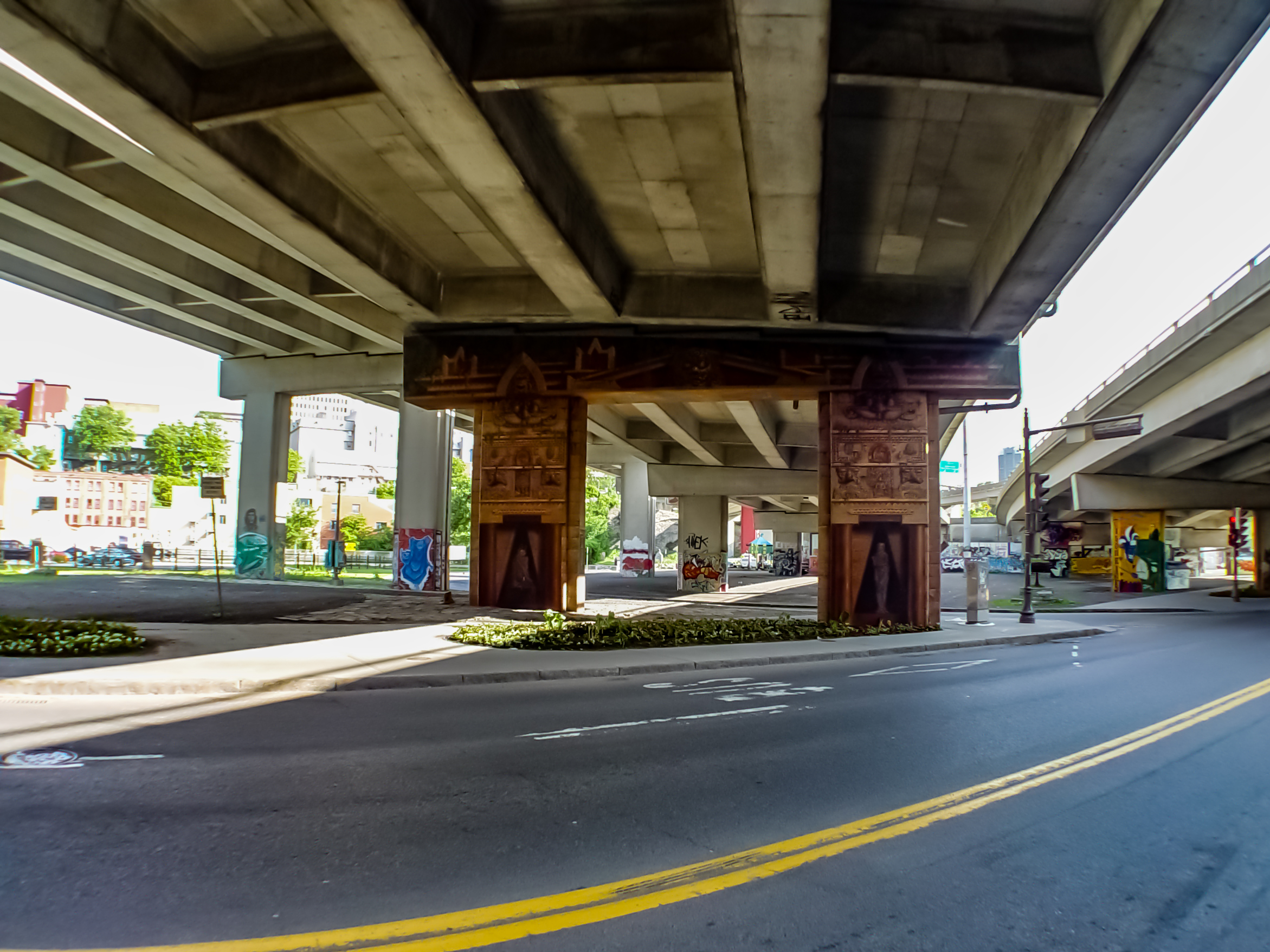 Quebec City (pronounced /kwɪˈbɛk/ (About this sound listen) or /kəˈbɛk/;[8]